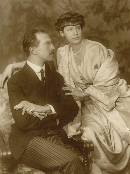 Prince Adalbert of Bavaria with Countess Auguste von Seefried auf Buttenheim, Munich 1919